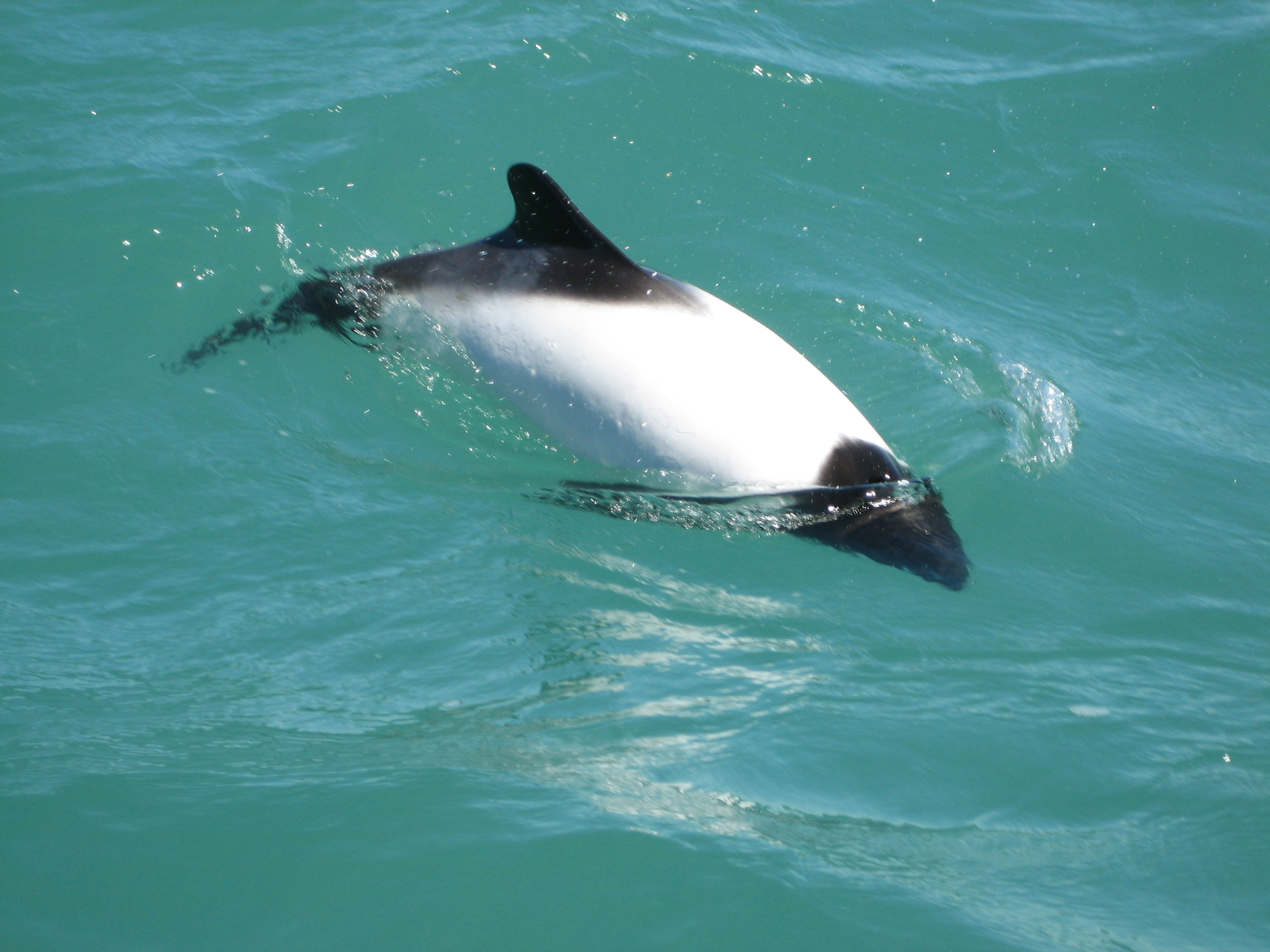 A Commerson's dolphin (Cephalarhynchus commersonii) off Argentina.